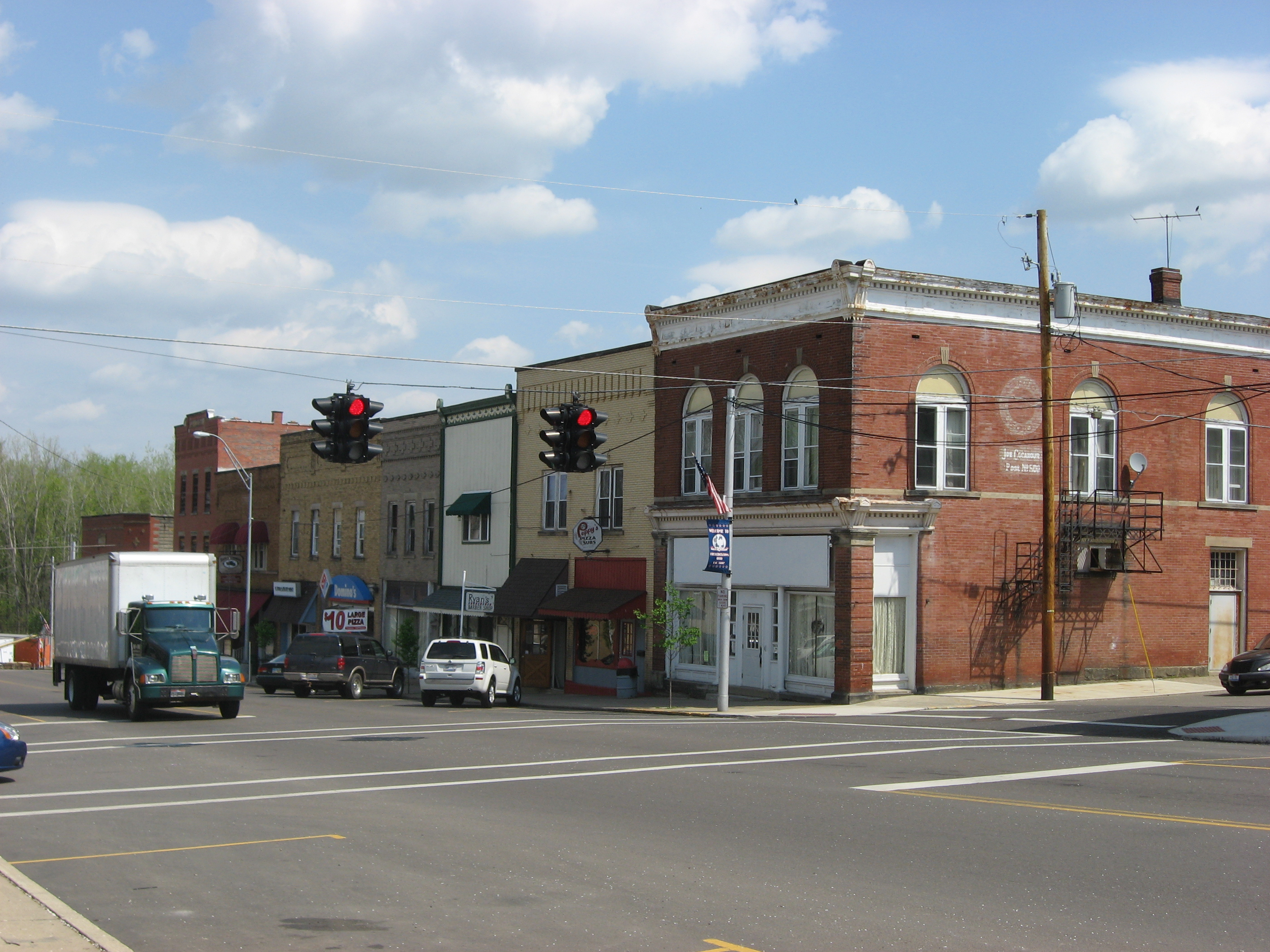 Buildings along N. Main Street (State Route 95) in downtown Fredericktown, Ohio, United States.